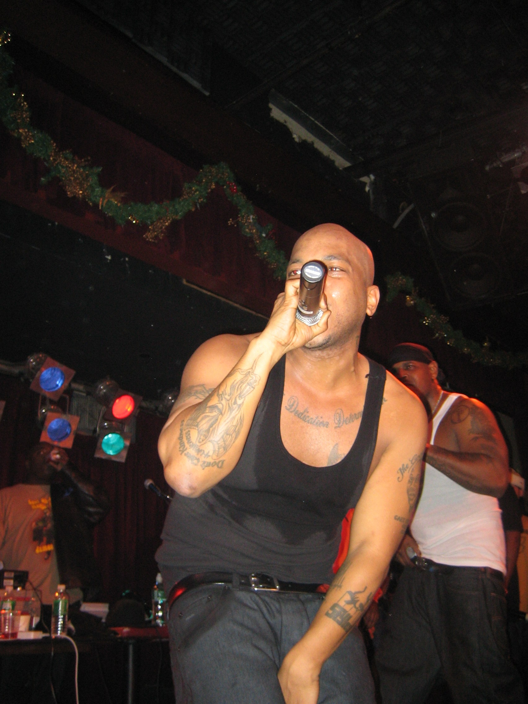 Picture Captured At Blue Cross Arena.